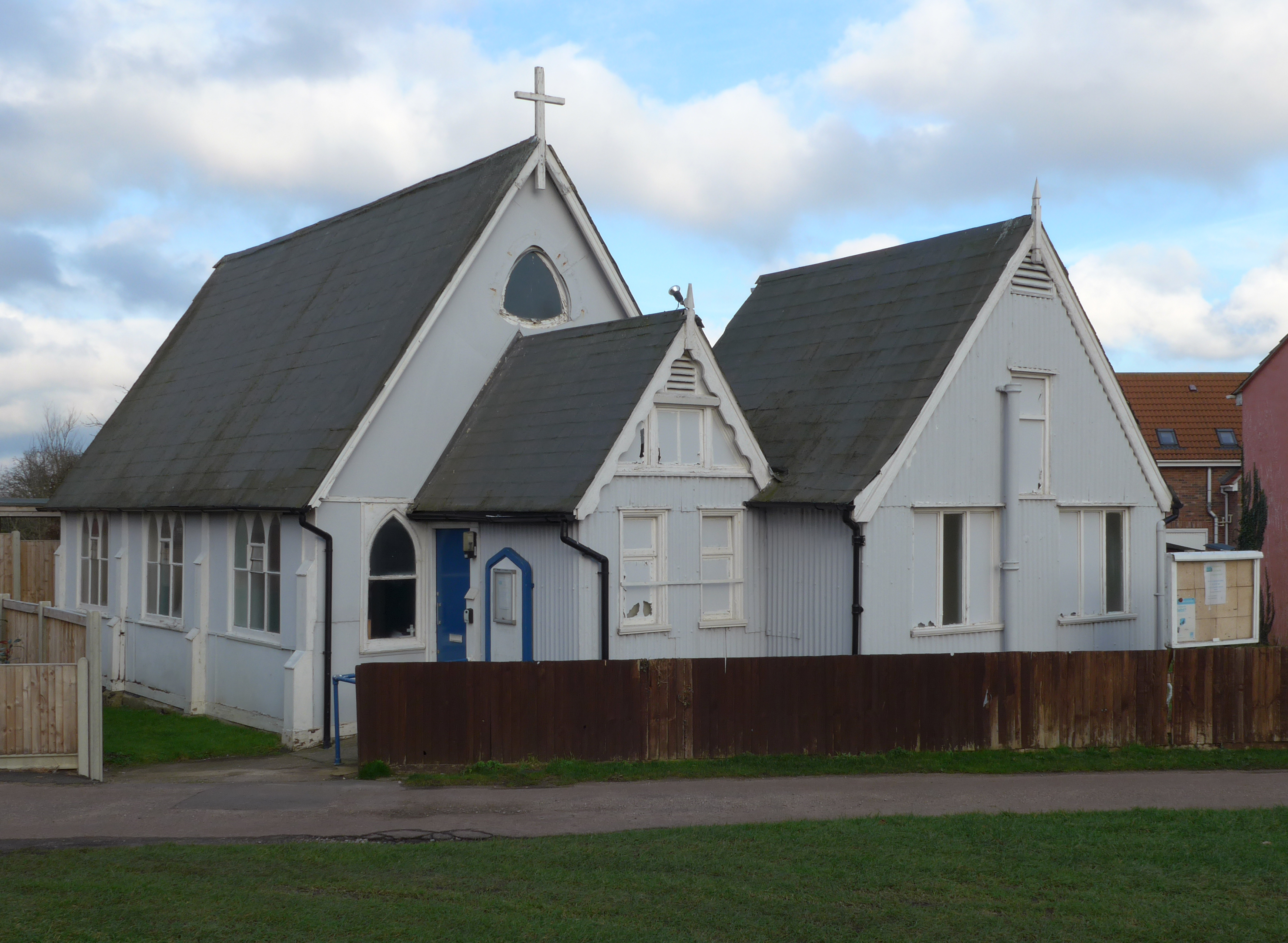 Old Heath Congregational Church, Old Heath, Fingringhoe Road, Colchester, Essex, UK, CO2 8DZ Also called Old Heath Congregational Chapel, Old Heath Tin Tabernacle. This building is locally-listed, see: Colchester Historic Buildings Forum - Old Heath Chapel, Old Heath Road (east) - (near Rowhedge Road). (Archived from the original on 22 April 2015.) (For reference purposes, information on Colchester Historic Buildings Forum can be found here., Archived by WebCite® from the original on 3 May 2015.) In December 2014, a planning application was made to Colchester Council to demolish the building and rebuild a new church on the site, planning application number 146515. Planning permission for the demolition was refused. The online planning case file on the Colchester Council website includes documents from Colchester and North East Essex Building Preservation Trust (Archived by WebCite® from the original on 8 July 2015), Colchester Historic Buildings Forum (Archived by WebCite® on 8 July 2015) and a document by Heritage Collective commissioned by the church (Archived original by WebCite® on 8 July 2015) which describe the church building.